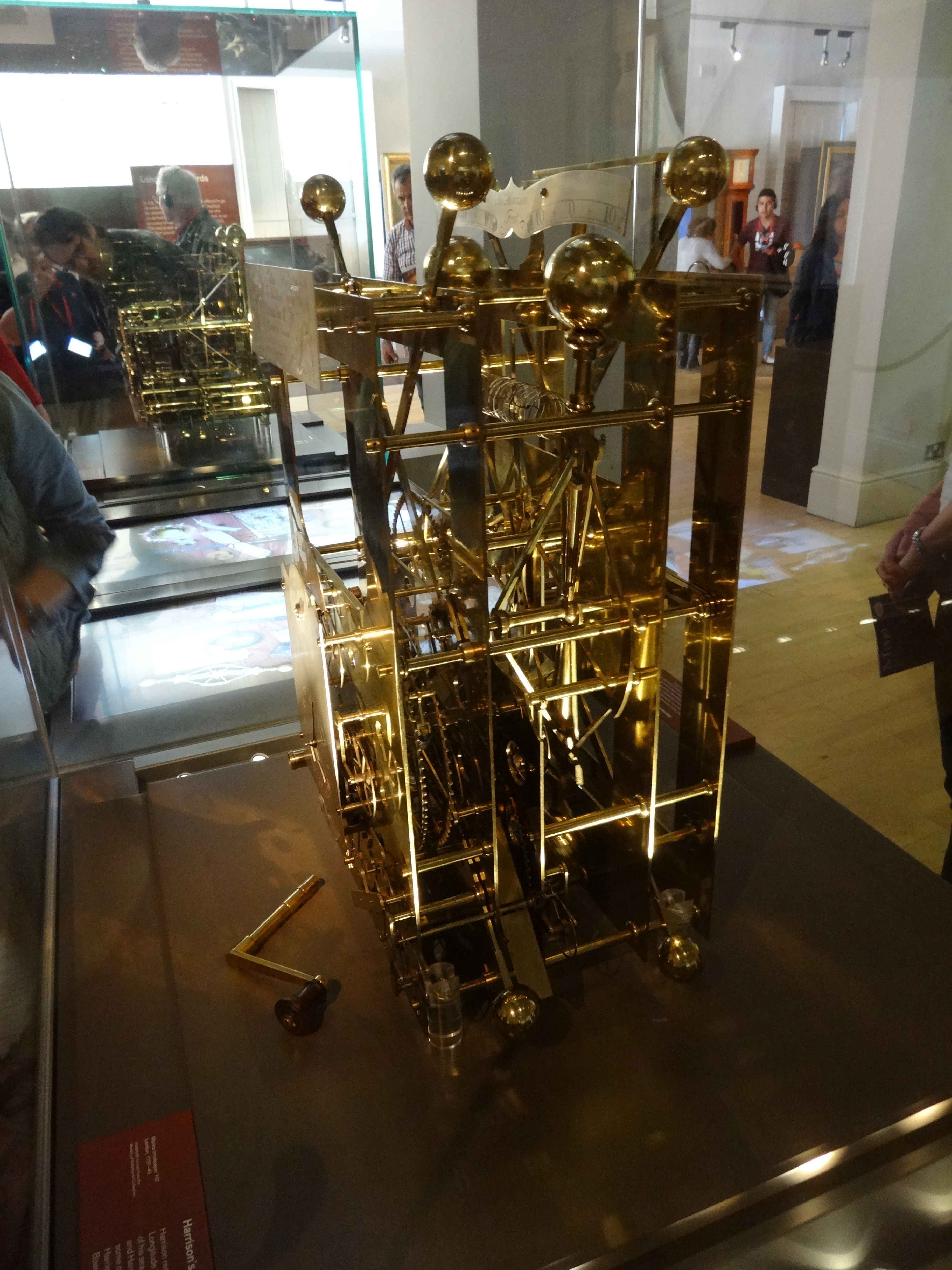 From the Longitude tour, with thanks to the Natonal Maritime Museum for allowing photography